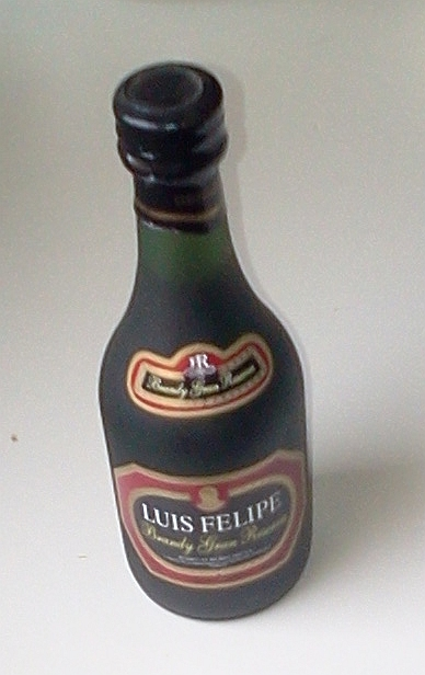 a mini bottle of brandy "Luis Felipe"